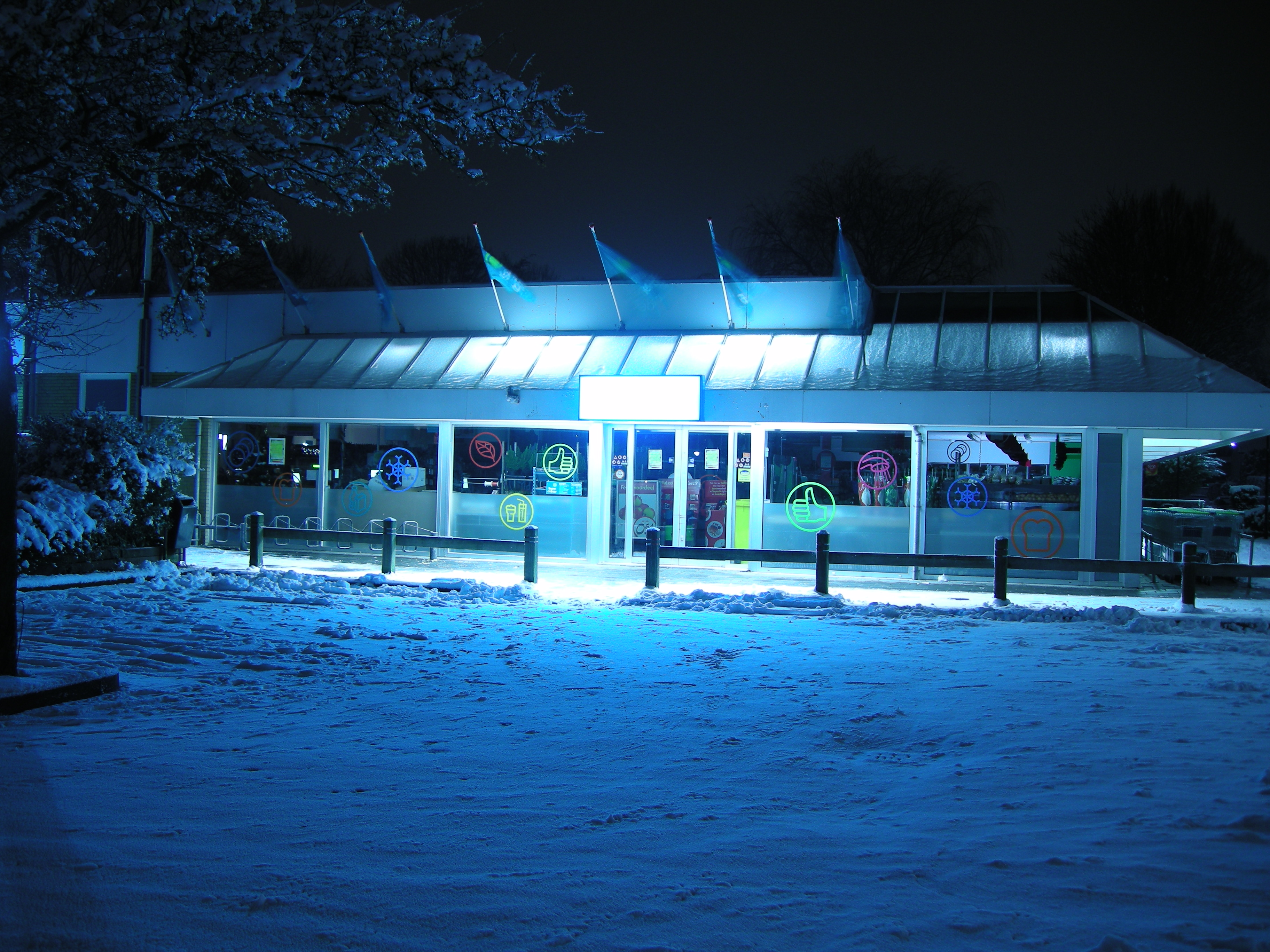 This is the Super De Boer shop in Woerden (Frederik Hendriklaan 30, 3445 XN Woerden Netherlands) all in the snow on december 17, 2009.